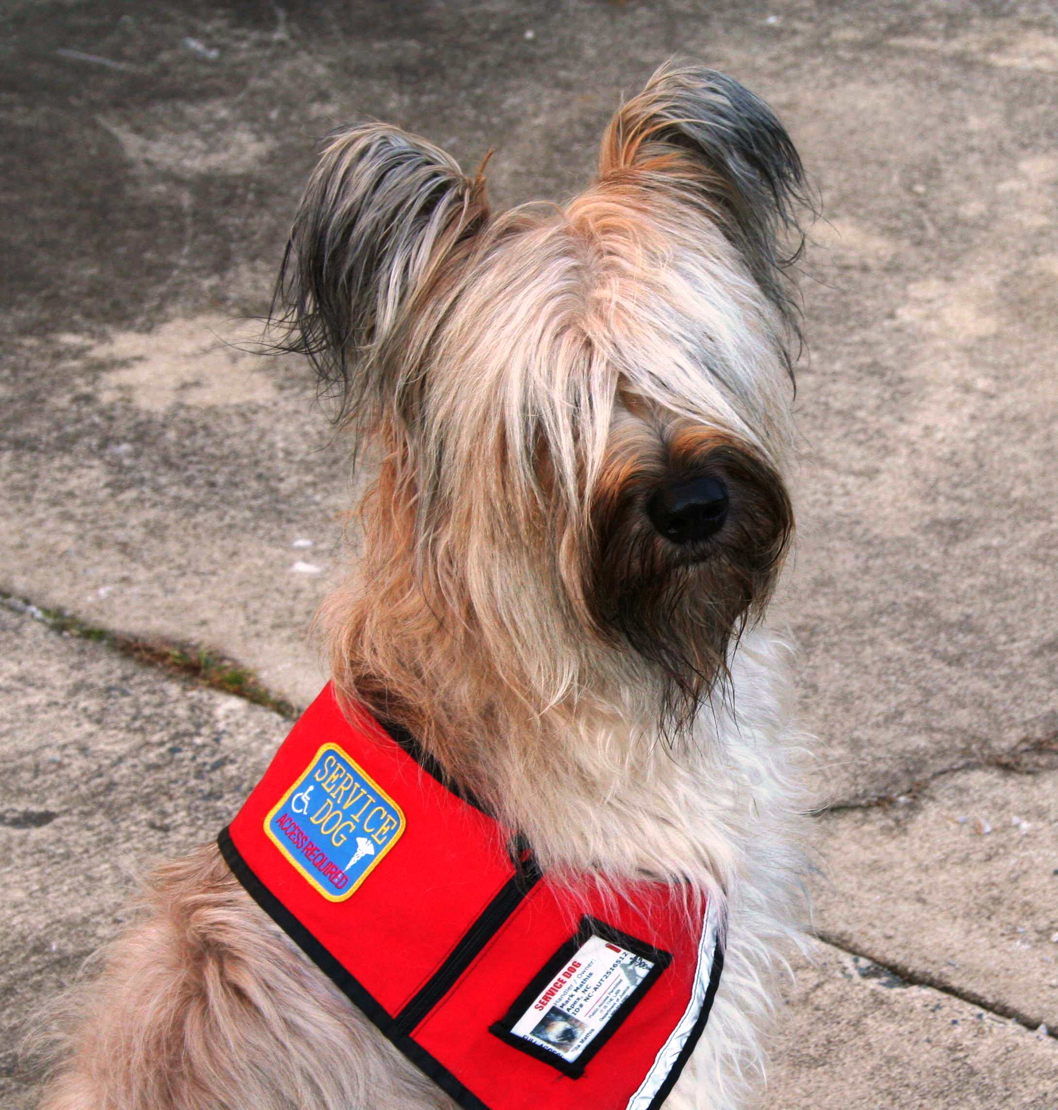 Briard Service Dog